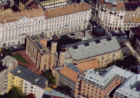 Great Synagogue in Dohány Street, Budapest, Hungary, aerialphotography